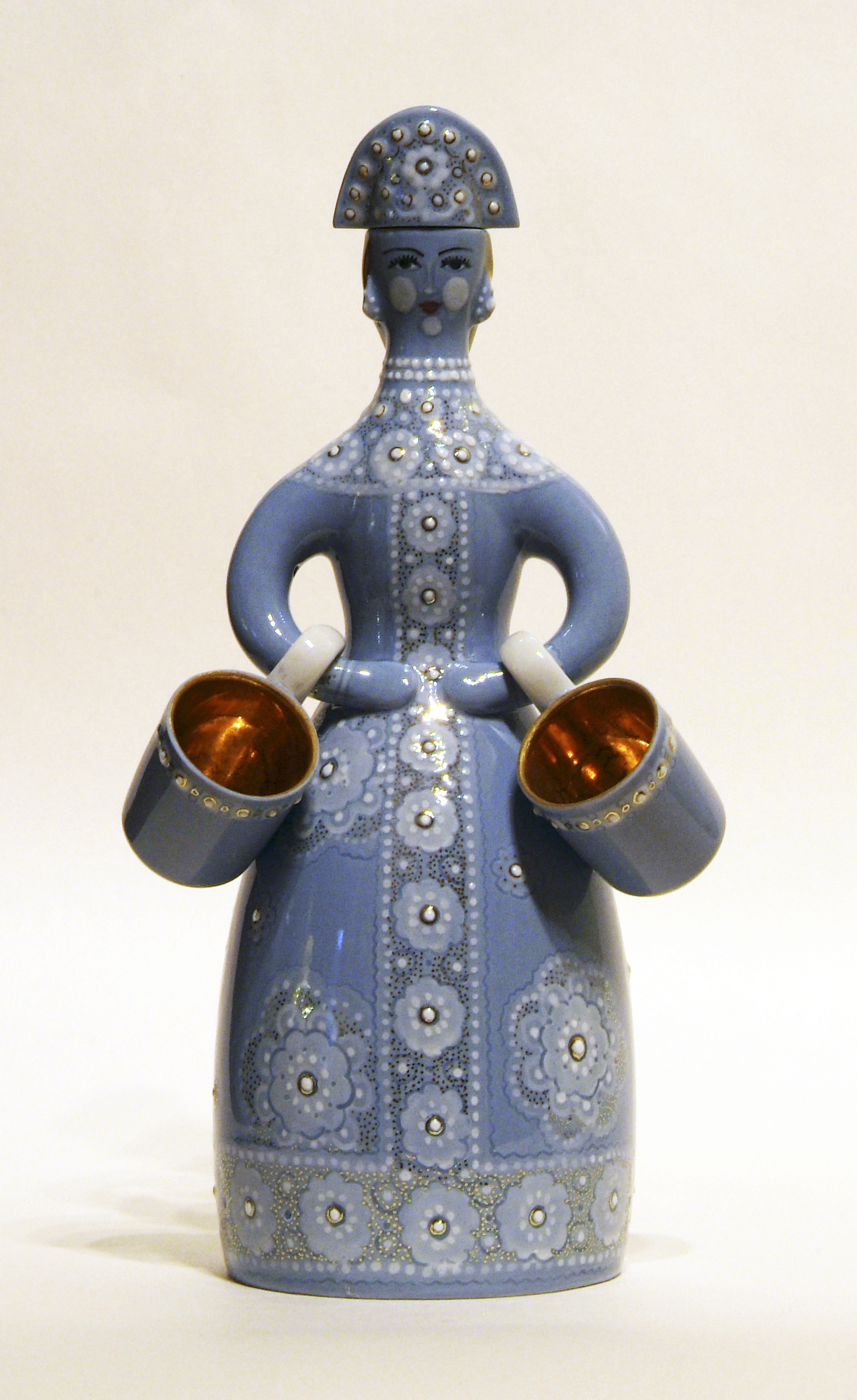 Porcelain. Author Bystrushkin B.D. Leningrad. USSR.